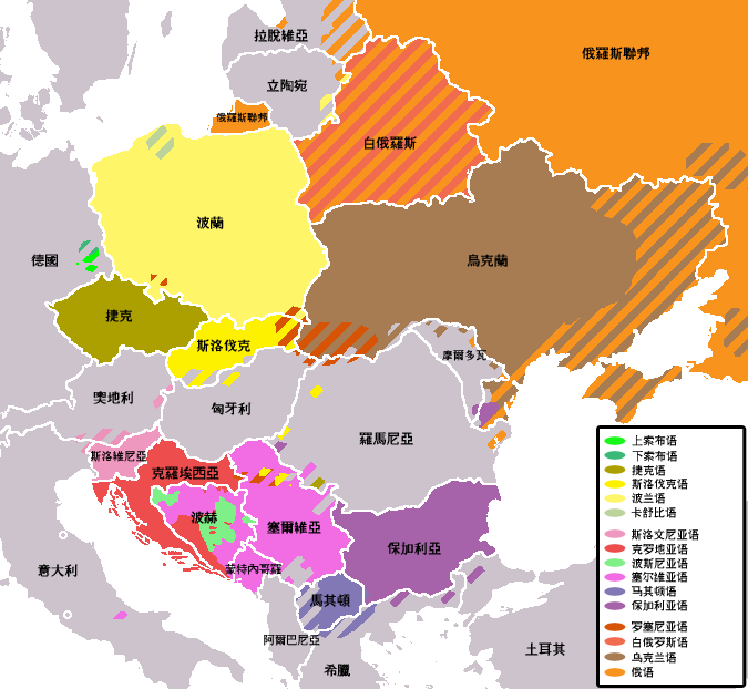 Map of Slavic language in Chinese. 斯拉夫語